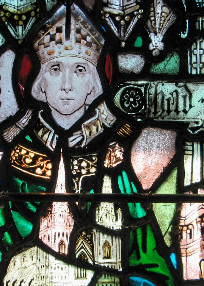 Monastic Chapel 1920, Holy Cross Monastery, West Park, New York. This is the Christian saint Chad in stained glass form. He was born in Yorkshire, Kingdom of Northumbria.